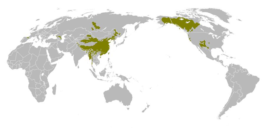 A map showing the possible extent of the languages usually considered members of the proposed Dené-Caucasian language family.